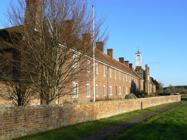 The Somerset Hospital, Froxfield, Wiltshire The building straddles two squares but most of it is in this one. It dates to 1694 in the reign of King William III. Two years later the infamous 'window tax' was introduced, the effect of which can be seen in the facade of this building. There's a bit more about the place here